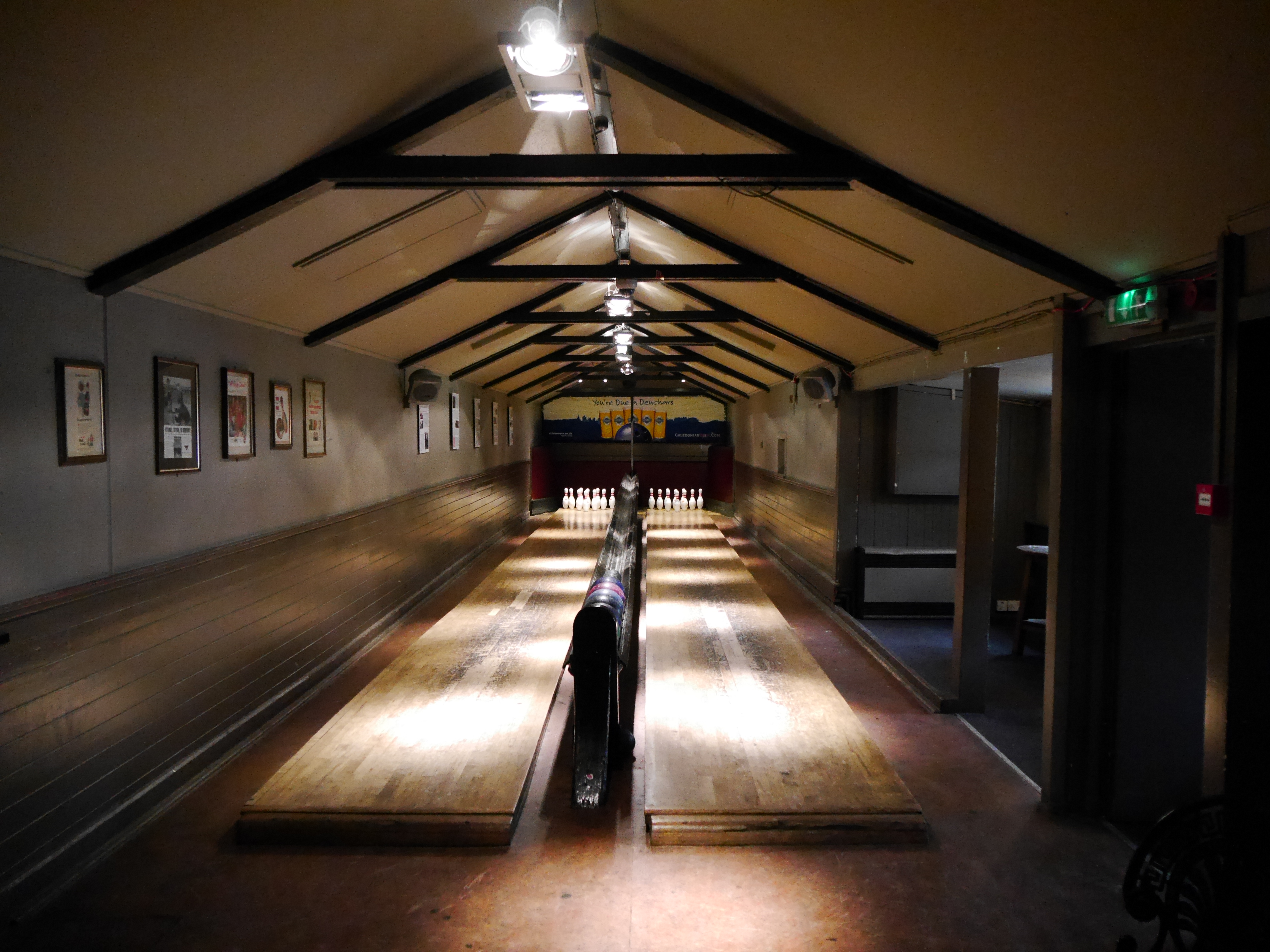 EDINBURGH, 43, 45 THE CAUSEWAY, SHEEP HEID INN Wikidata has entry Q17811443 with data related to this building.